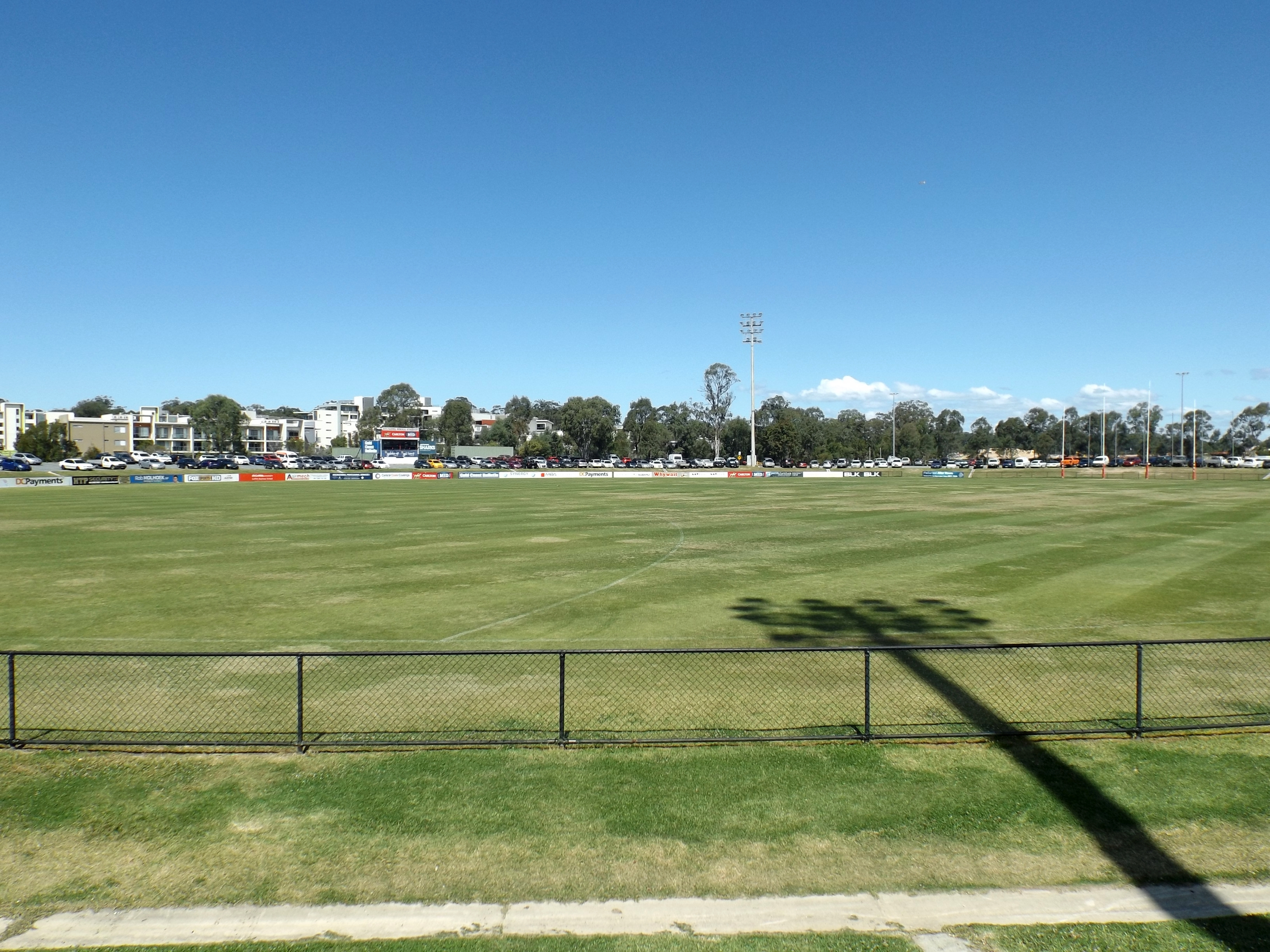 Photo of the Fankhauser Reserve oval at Southport, Gold Coast City, Queensland, Australia.